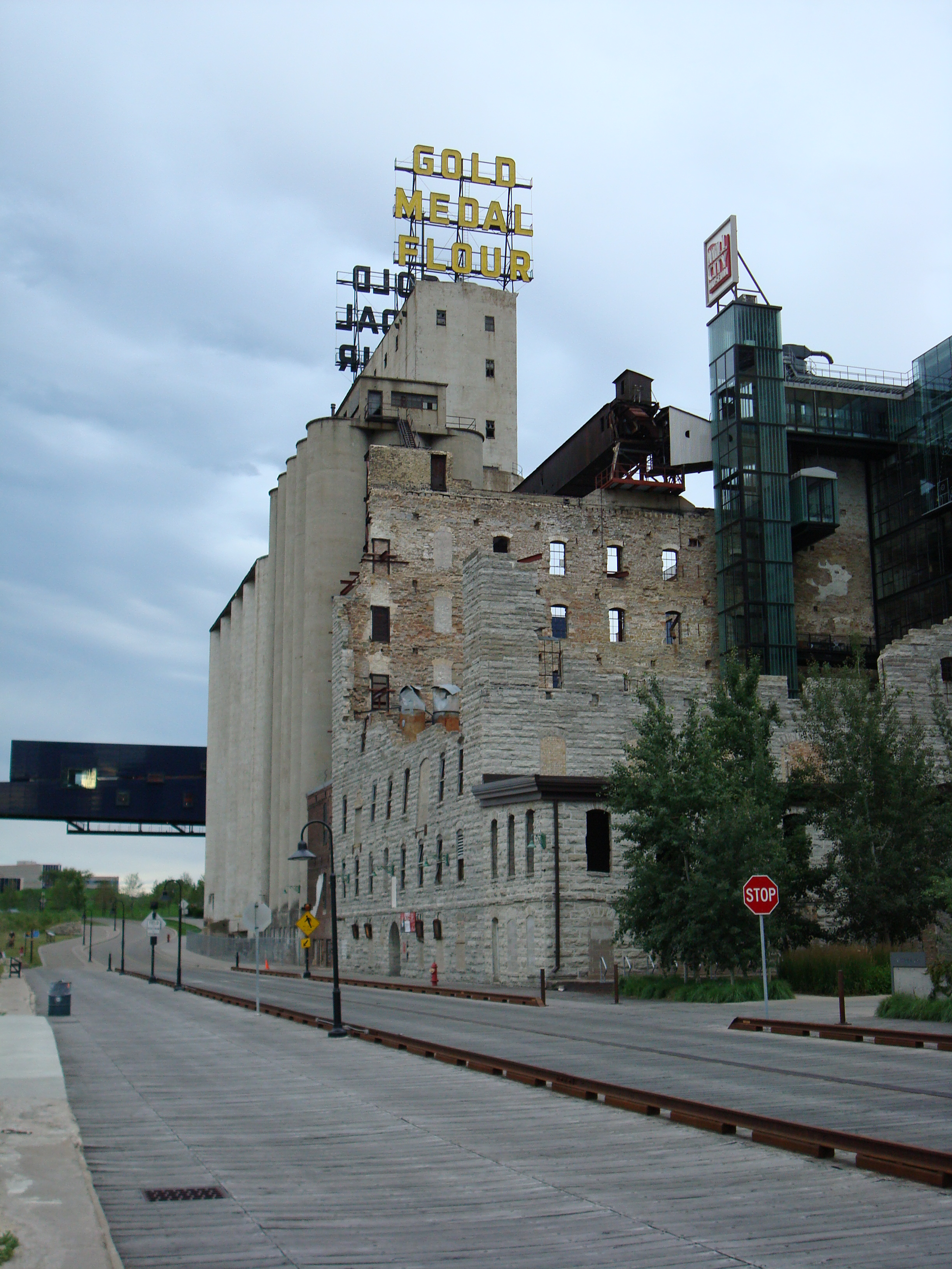 Washburn A Mill in Minneapolis.